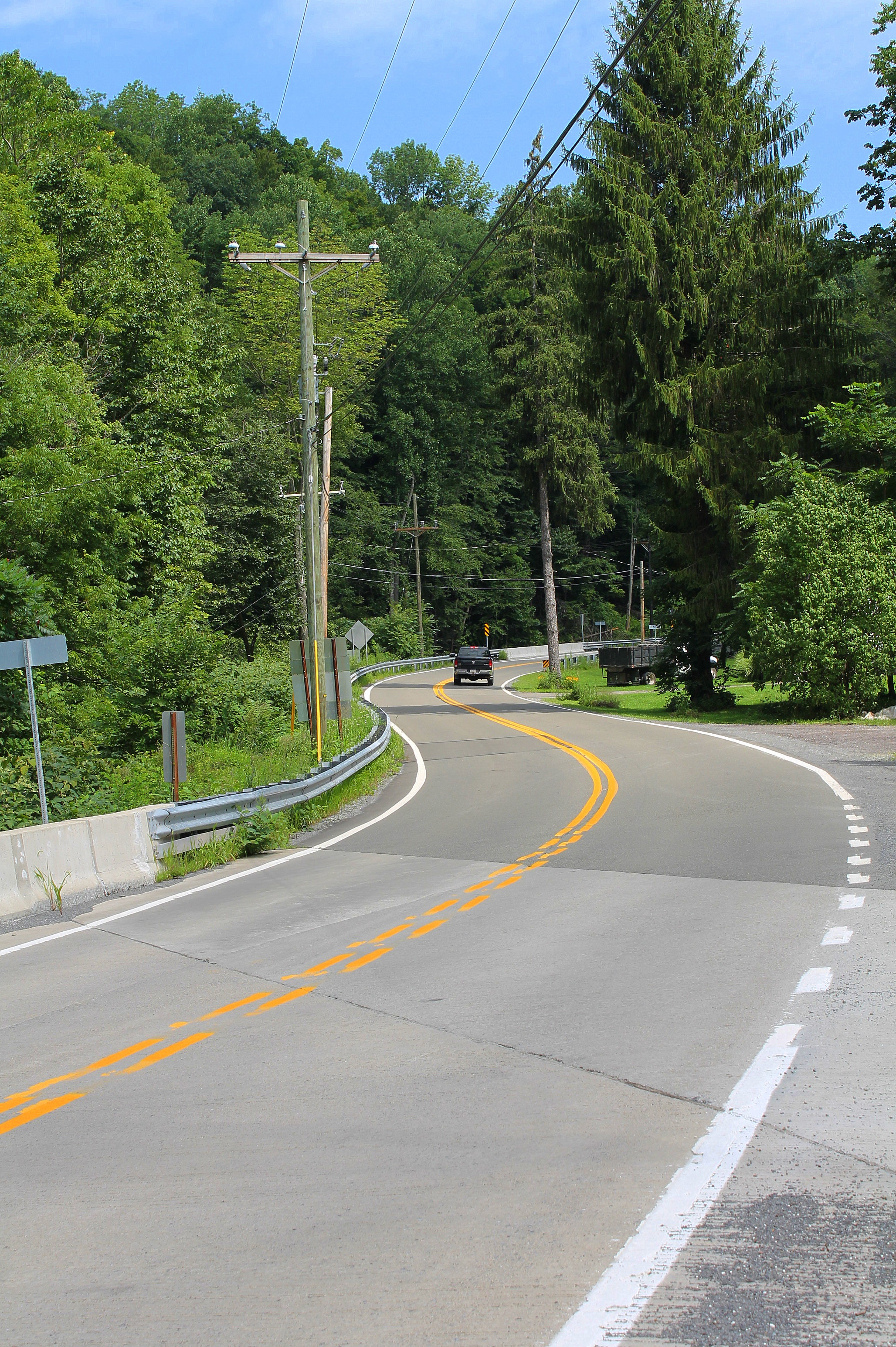 Pennsylvania Route 307 in Wyoming County near its northern terminus.